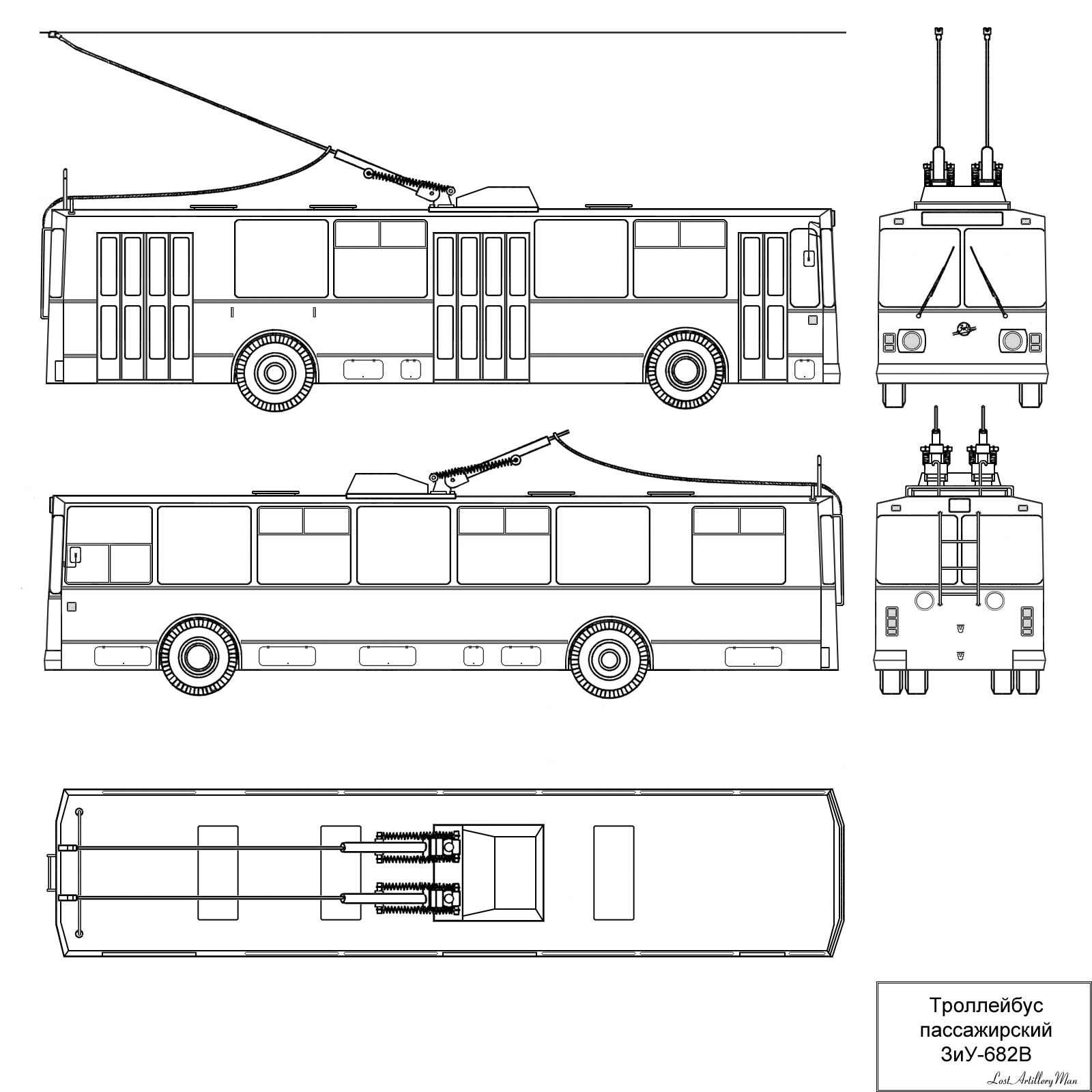 Sketch of Soviet/Russian trolleybus ZiU-9